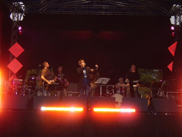 Alistar Griffin @Party in the Paddock 30-6-08